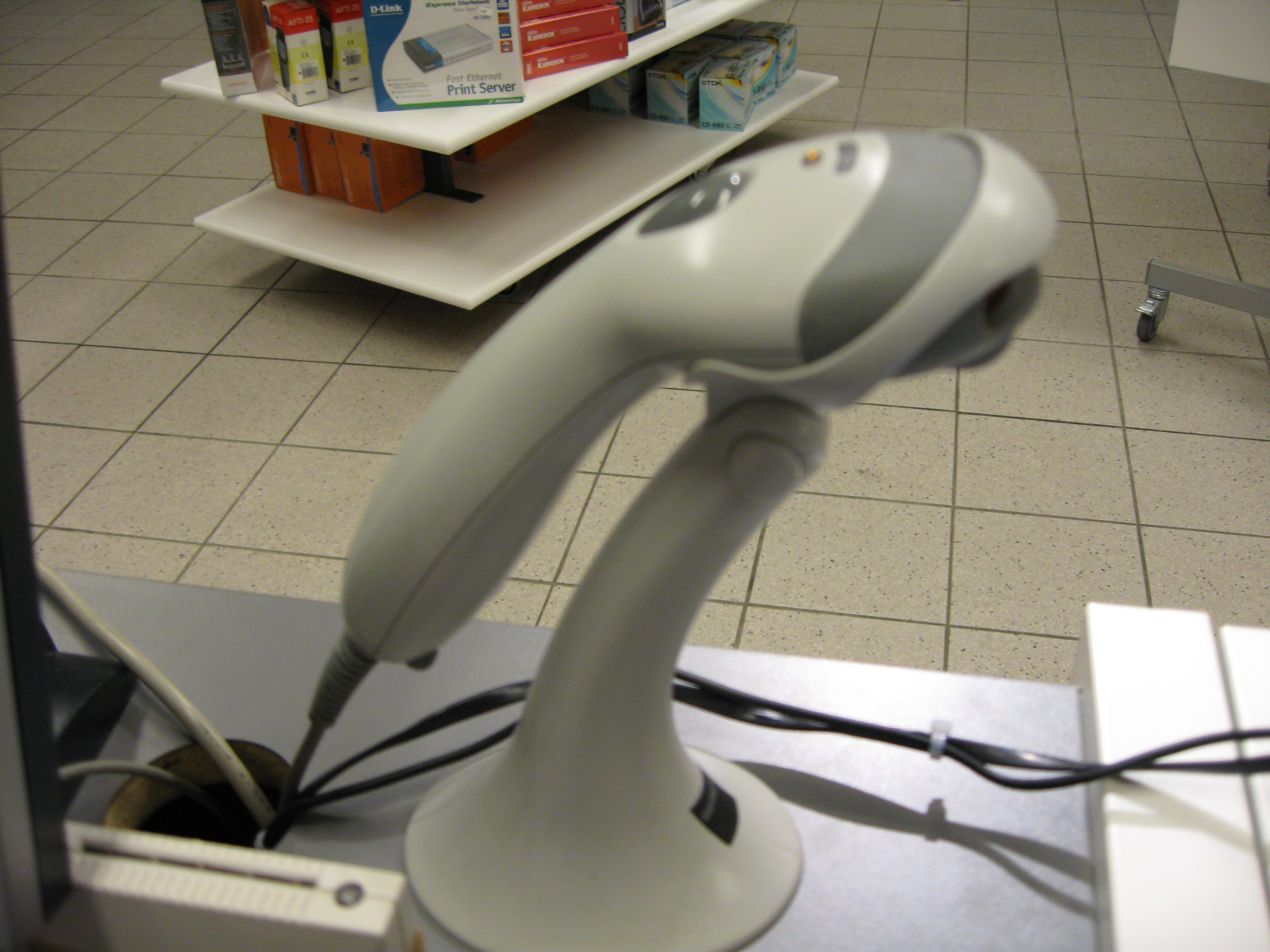 Barcode reader. Photo:Michael Shanks